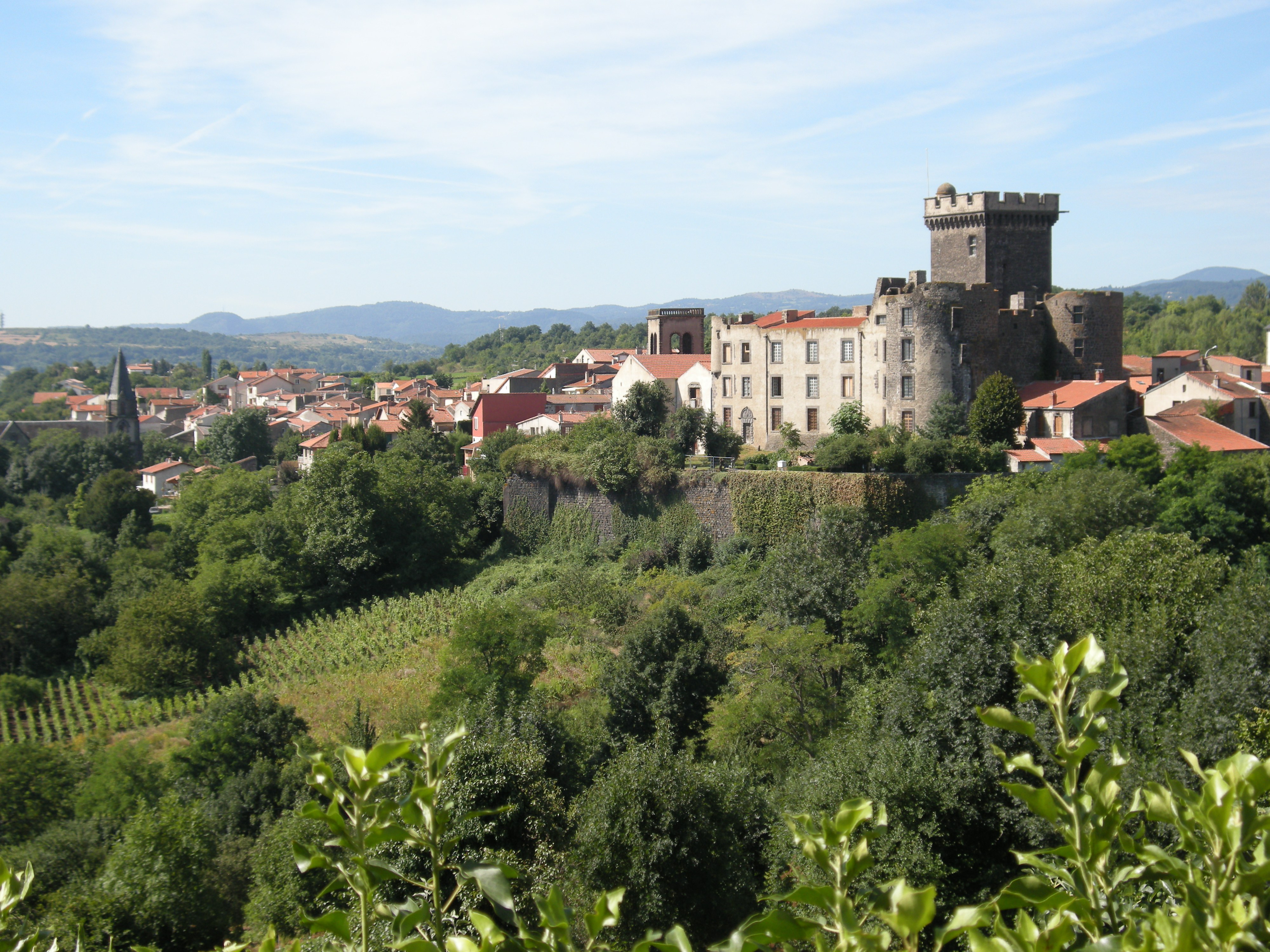 Village of Châteaugay in Puys de Dôme (France).